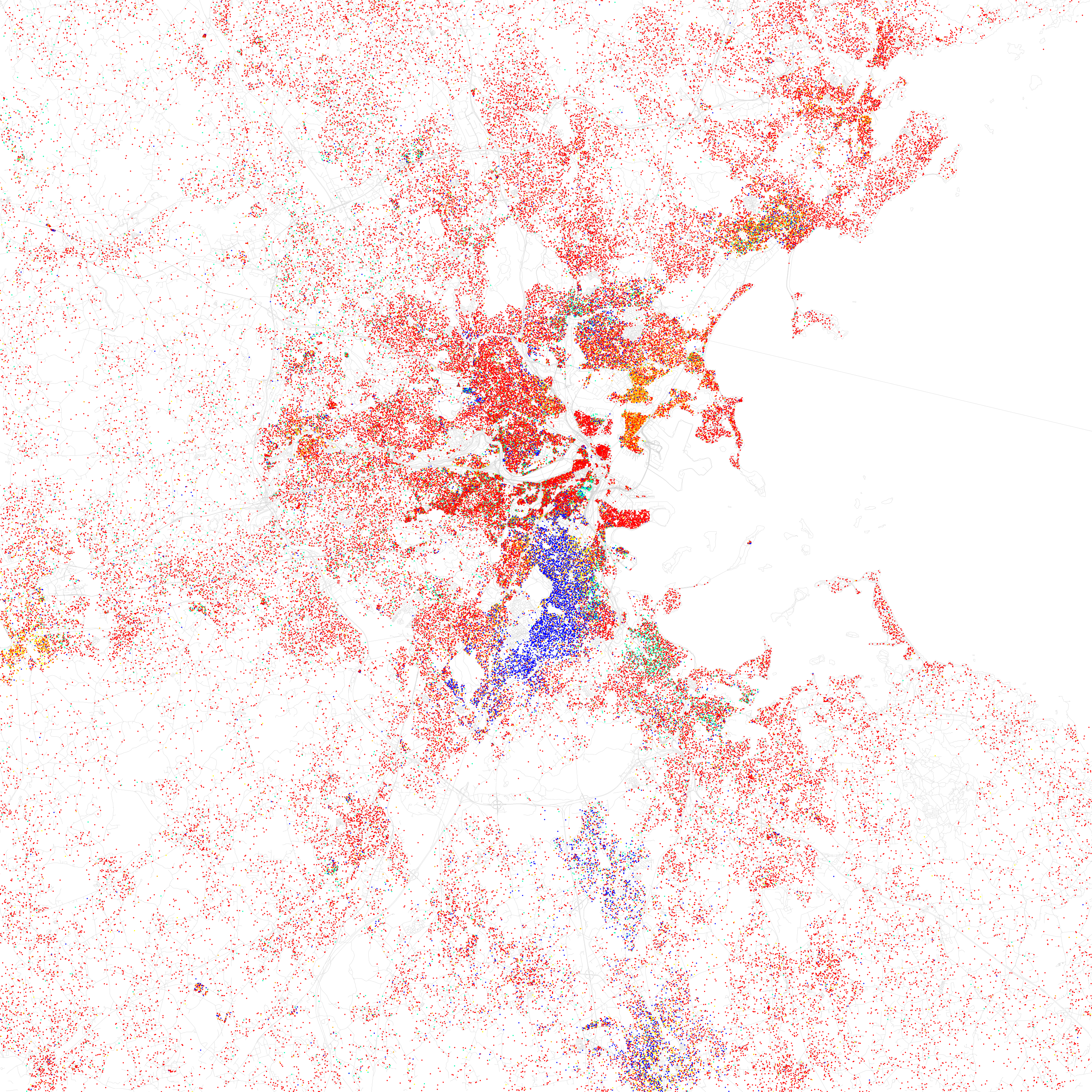 Maps of racial and ethnic divisions in US cities, inspired by Bill Rankin's map of Chicago, updated for Census 2010. Red is White, Blue is Black, Green is Asian, Orange is Hispanic, Yellow is Other, and each dot is 25 residents. Data from Census 2010. Base map © OpenStreetMap, CC-BY-SA